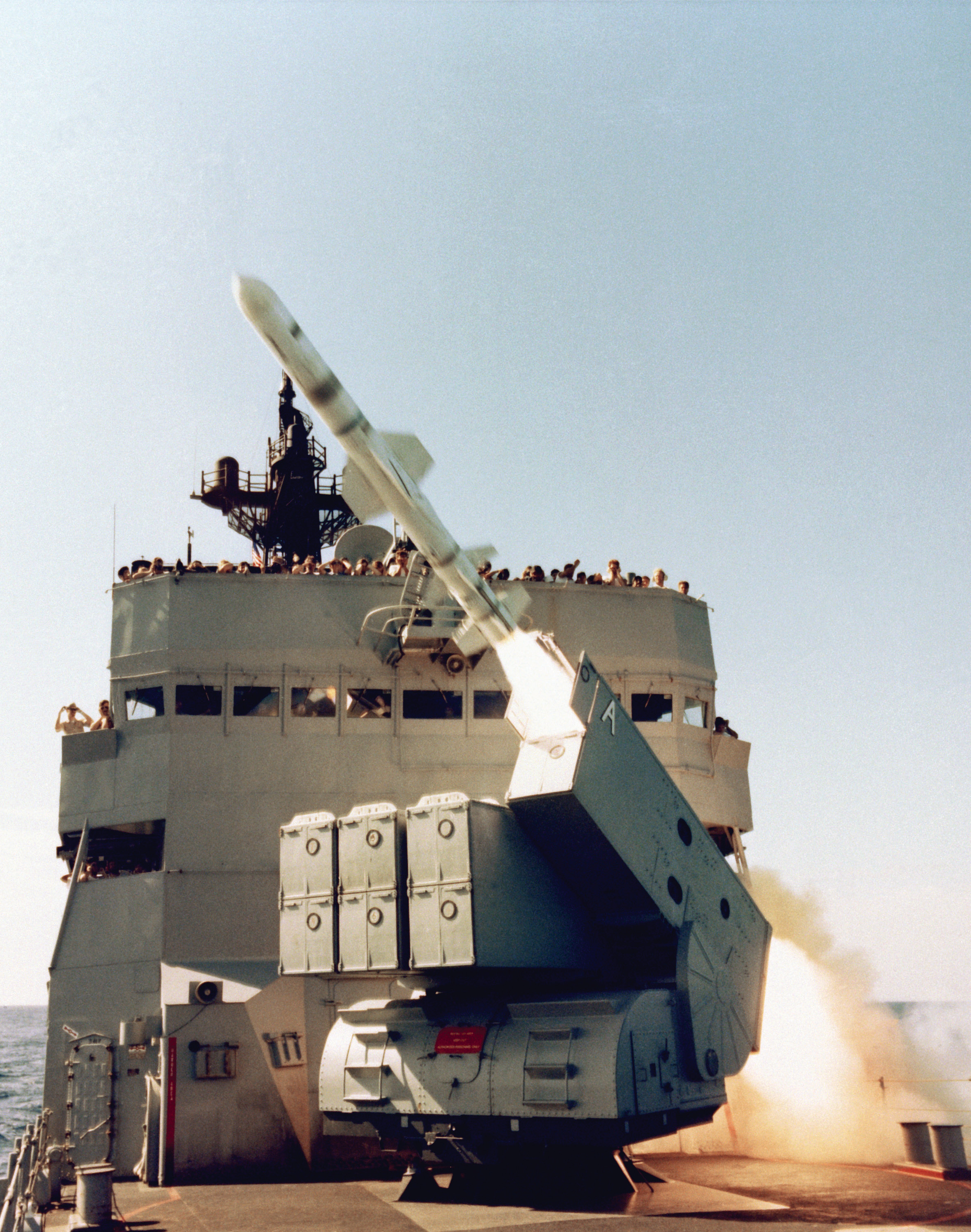 An RGM-84 Harpoon missile is launched from an ASROC launcher aboard the Knox class frigate USS BADGER (FF-1071).